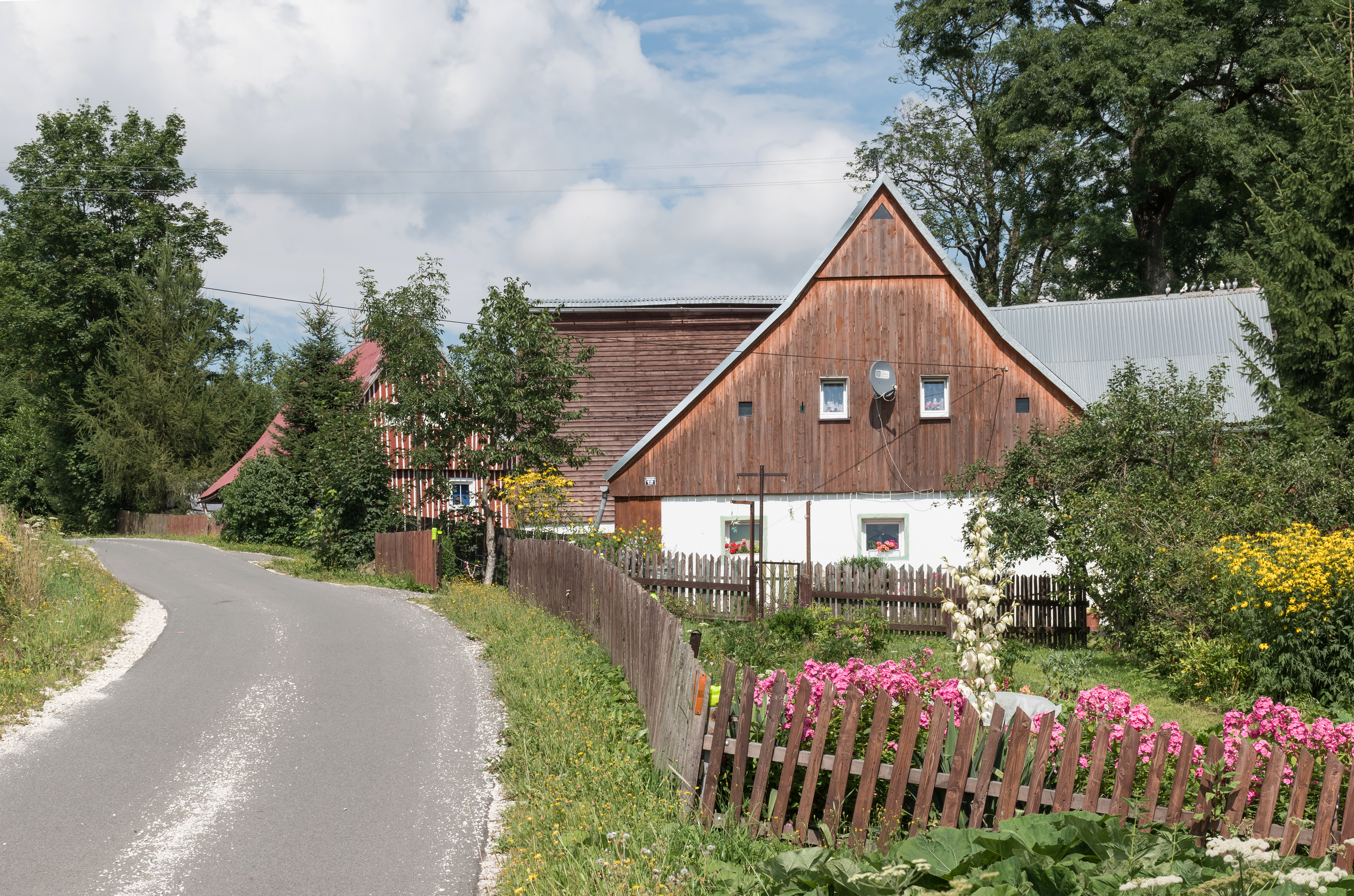 House No. 12 in Jodłów